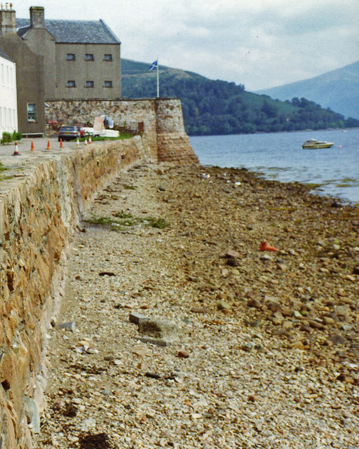 Inveraray Inveraray Jail from the side and sea wall.